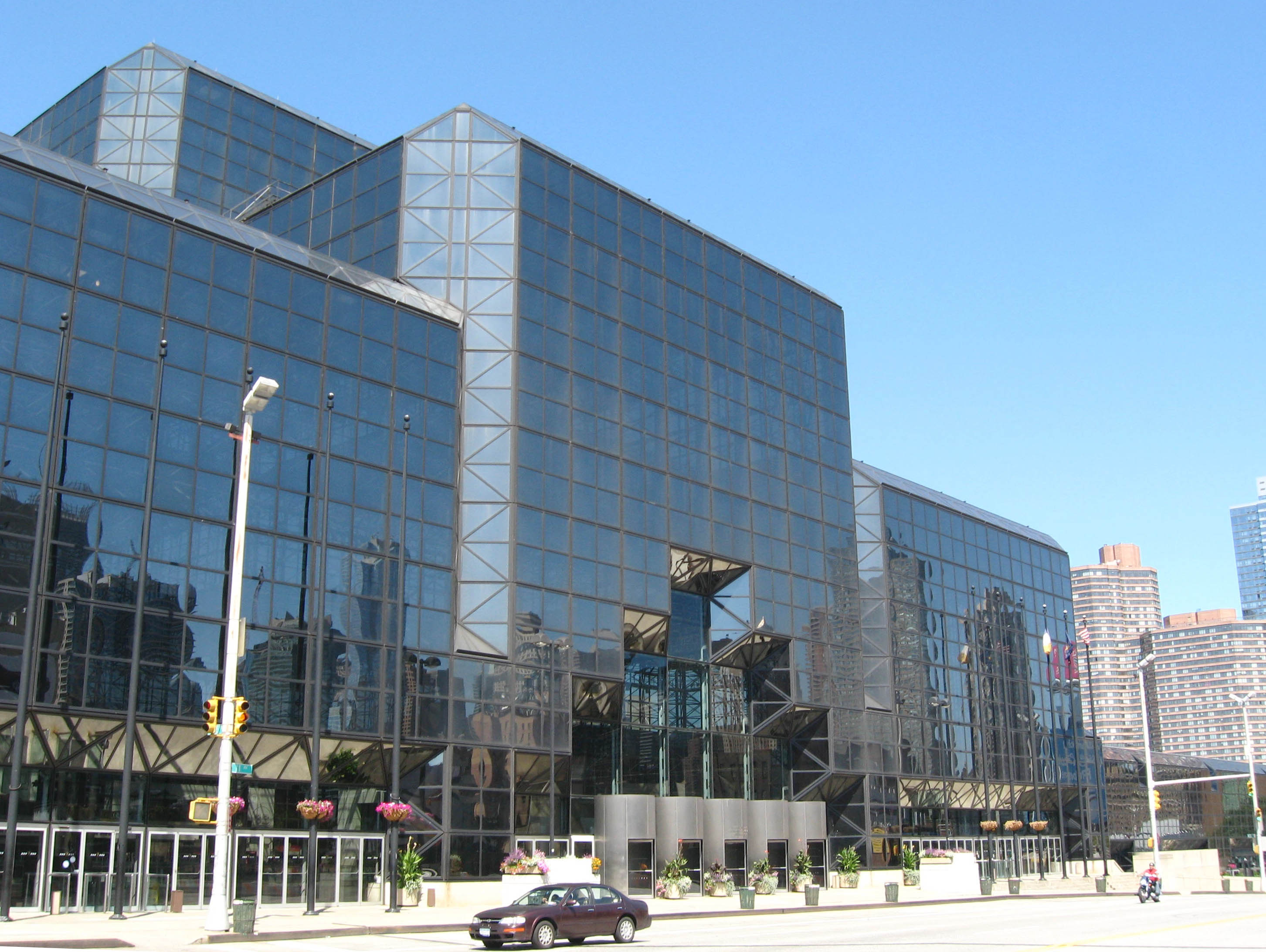 Looking north up Eleventh Avenue (Manhattan) at Jacob K. Javits Convention Center on a sunny late morning